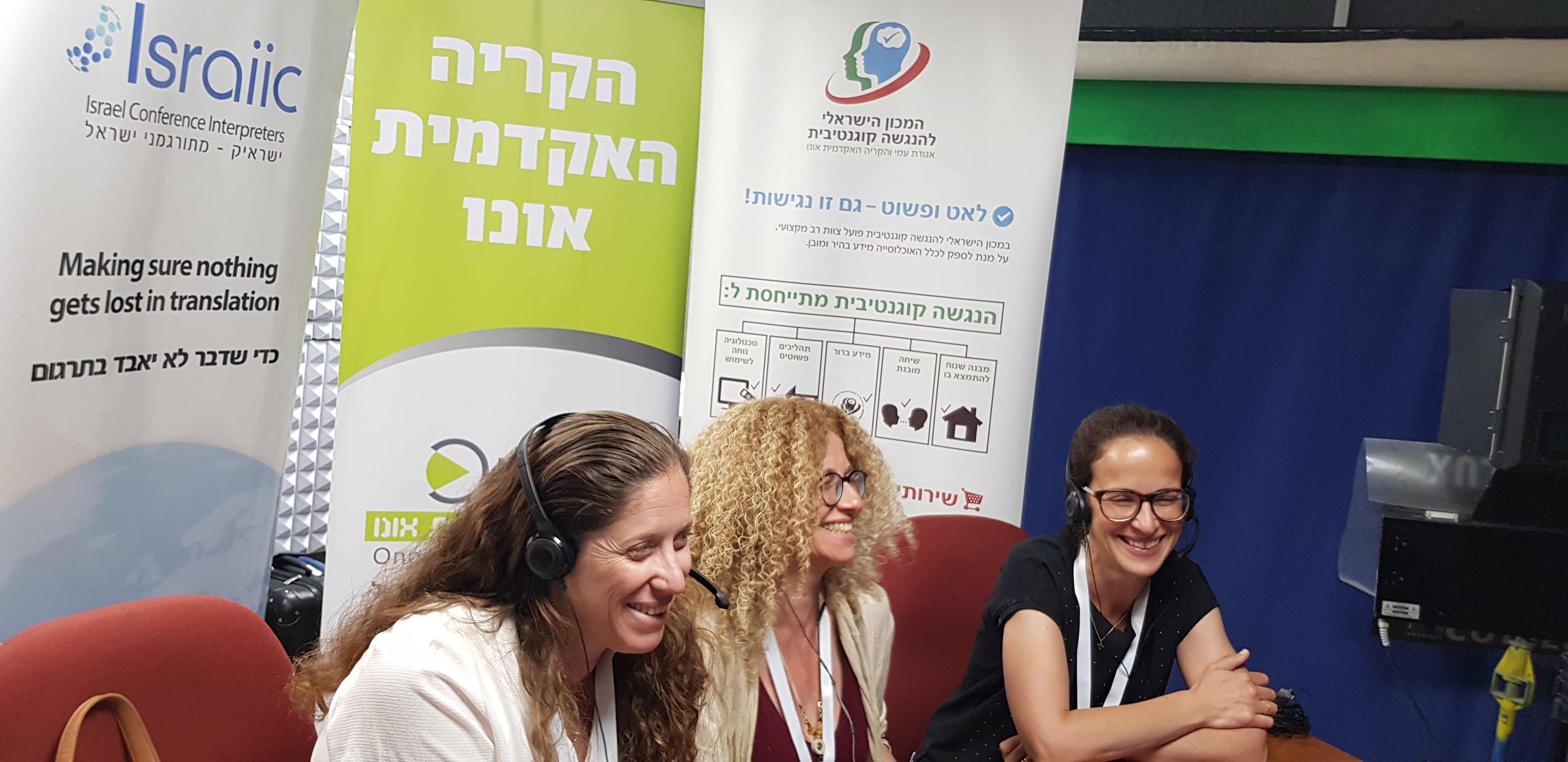 The team of The Israeli Institute on Cognitive Accessibility[1] in the preparations for the Eurovision 2019 in Tel Aviv, Israel.